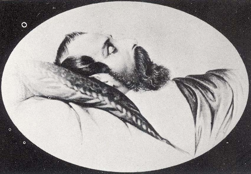 Body of King Carl XV of Sweden, Carl IV of Norway, after death; Place: Sweden